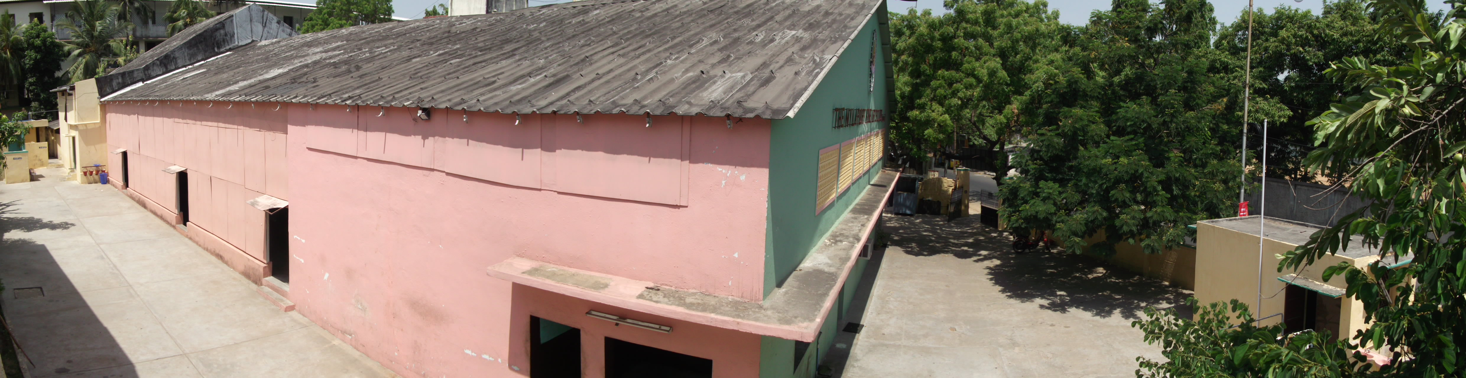 This is Mylapore Fine Arts Club which is located in Oliver Road, Mylapore